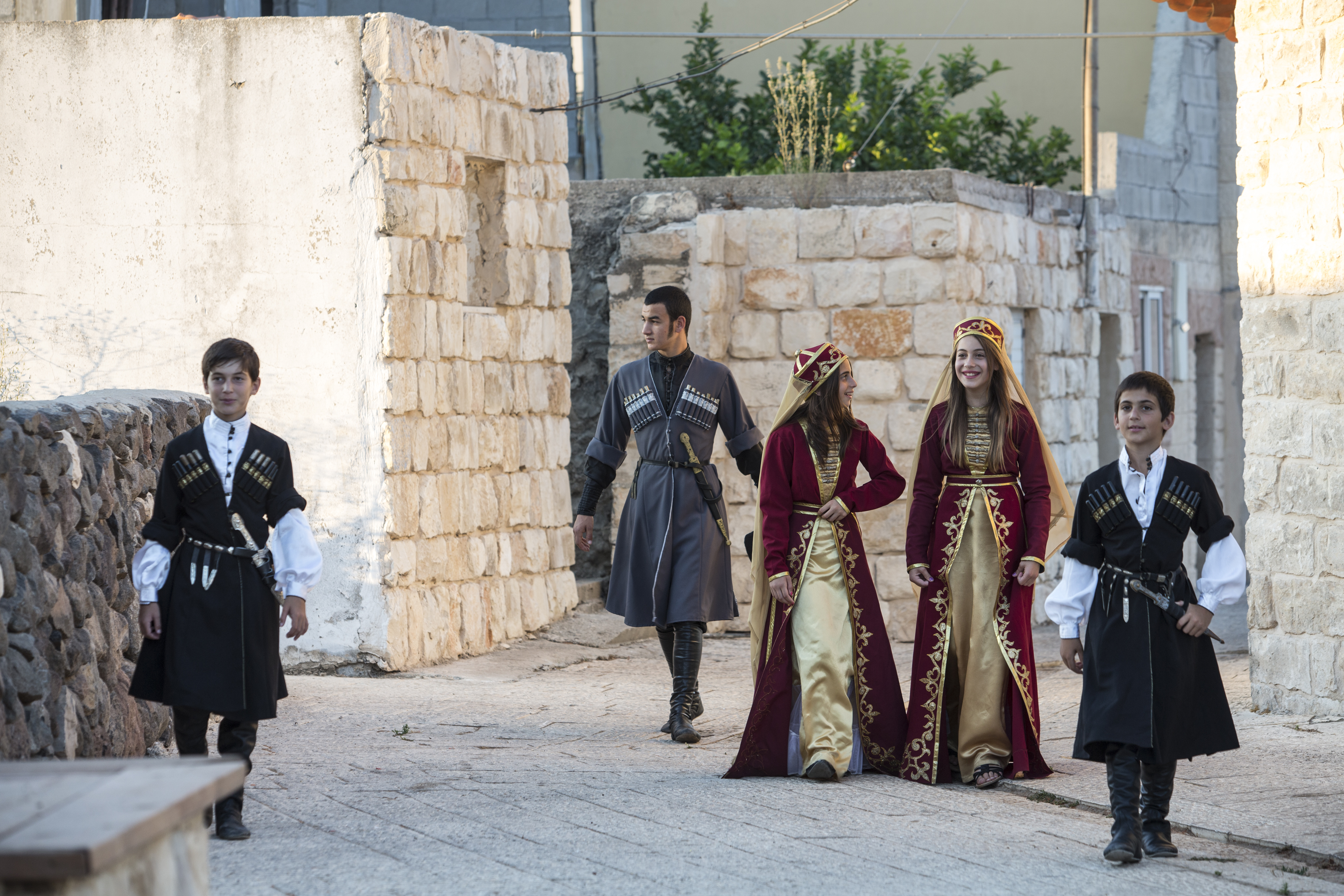 a group of Circassians in traditional garb. Photo taken by Itamar Grinberg for the Israeli Ministry of Tourism. Credit attribution requested